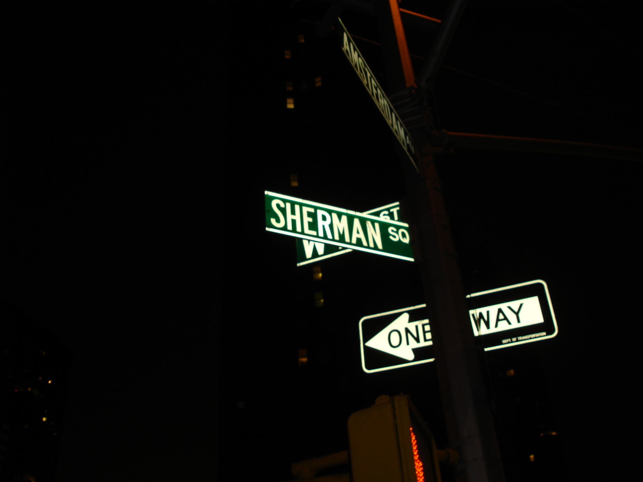 This photo is of Wikipedia Takes Manhattan location code 25, Sherman Square.